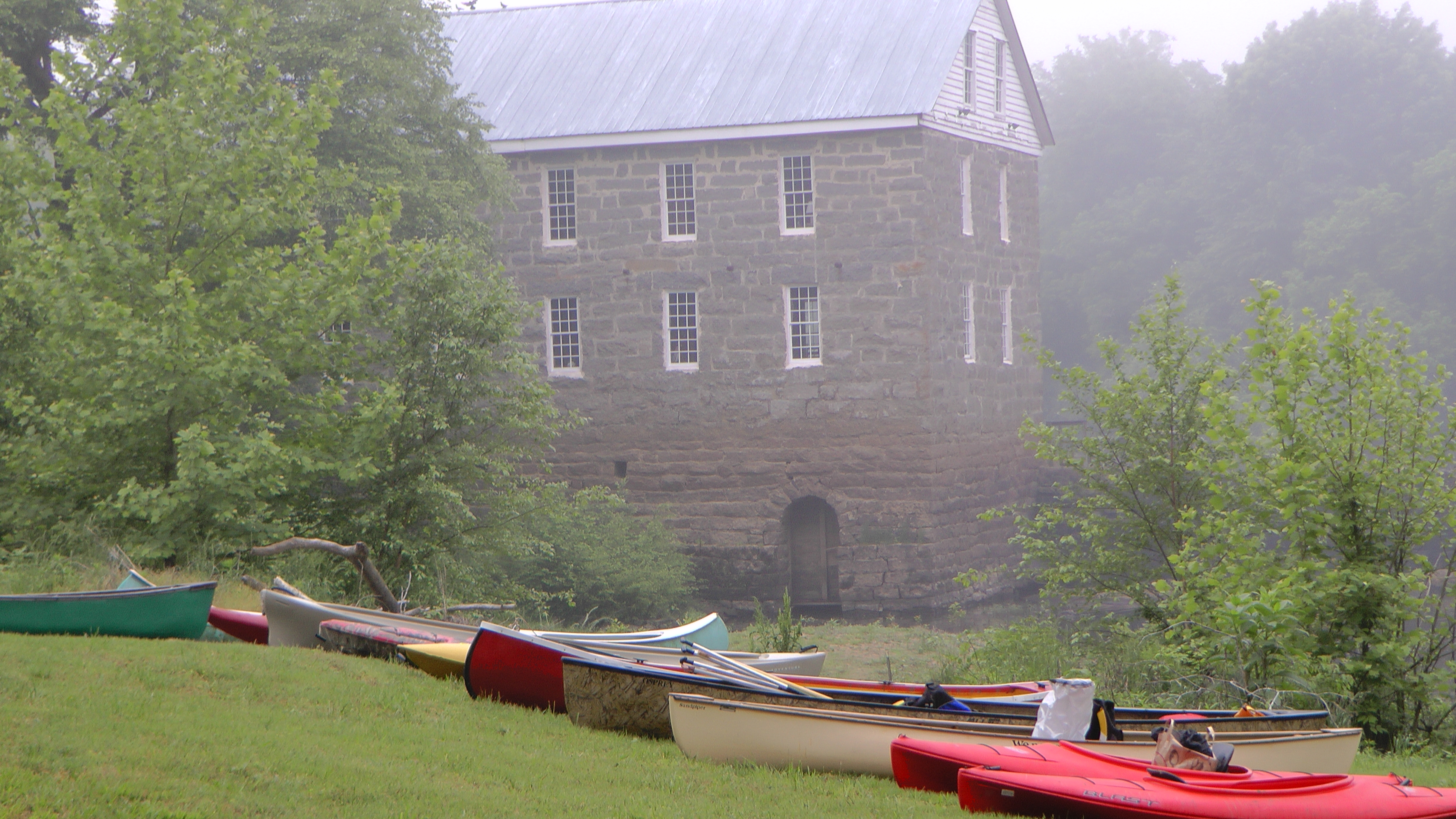 Bellamy's Mill